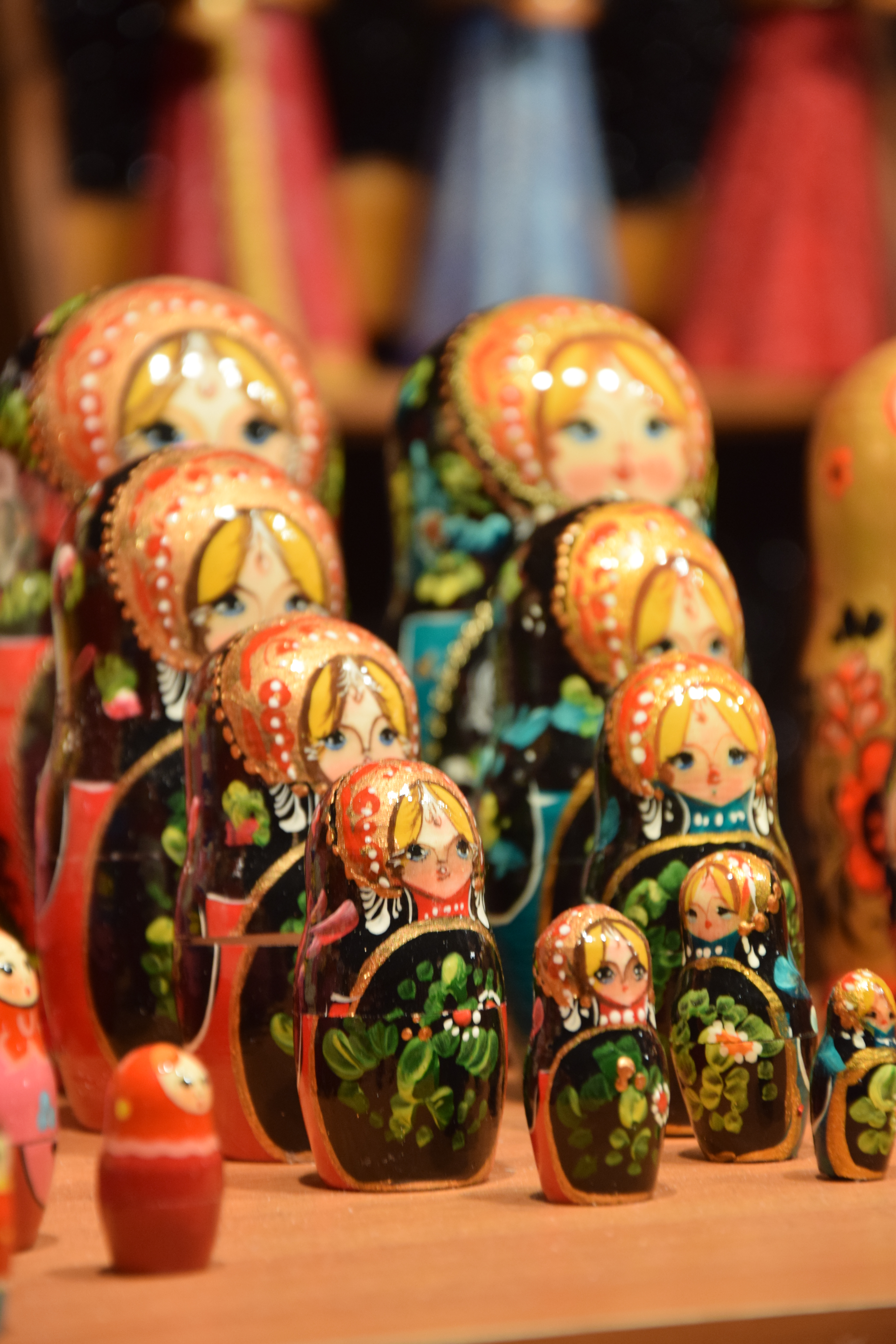 Two families of Matryoshka doll on a stand at Christmas market Colmar, Alsace, France